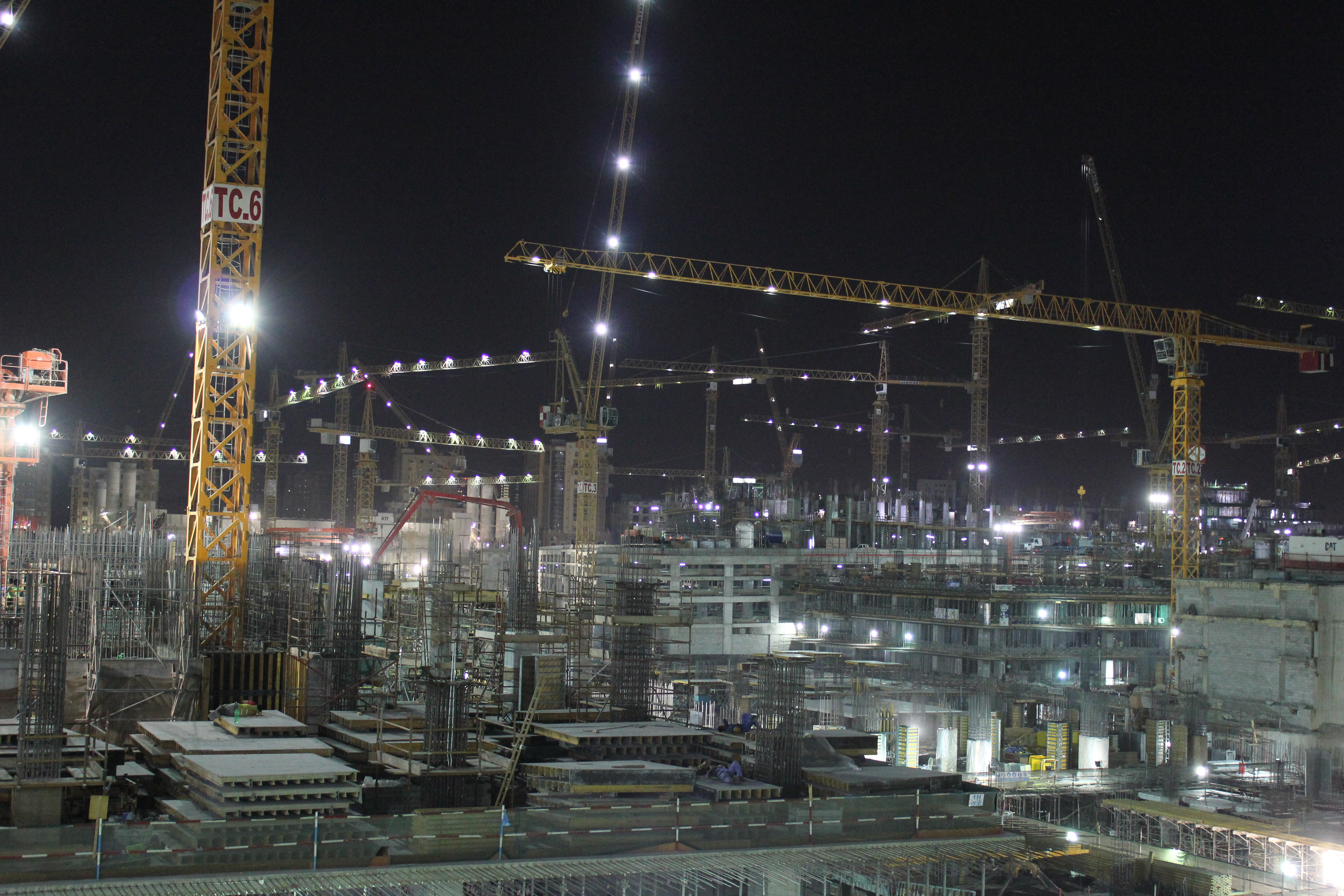 Construction in Msheireb Downtown Doha.